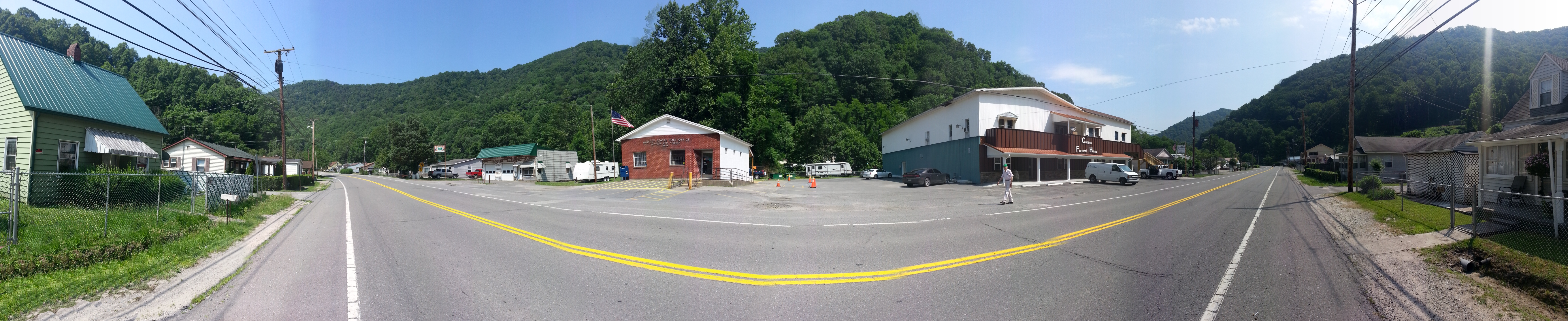 Switzer, West Virginia.